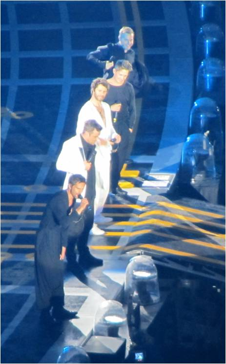 Take That performing in Croke Park Stadium in Dublin on 18th June 2011.